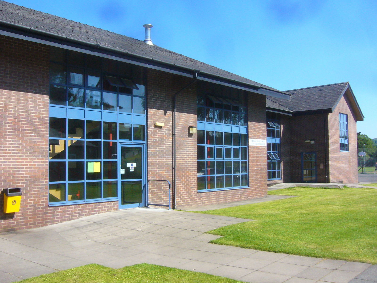 The Cliff Tucker Building, Lampeter